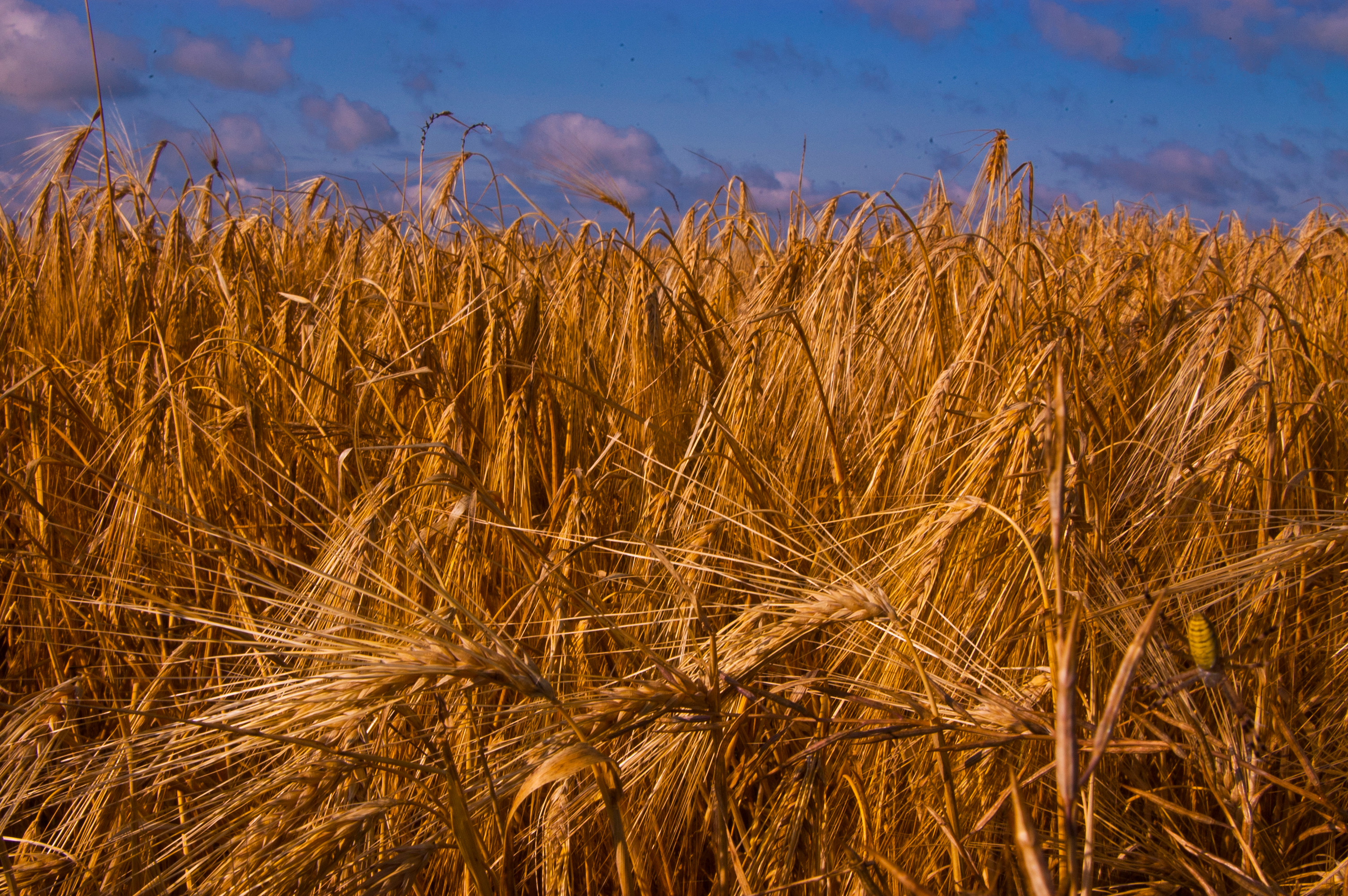 Barley field